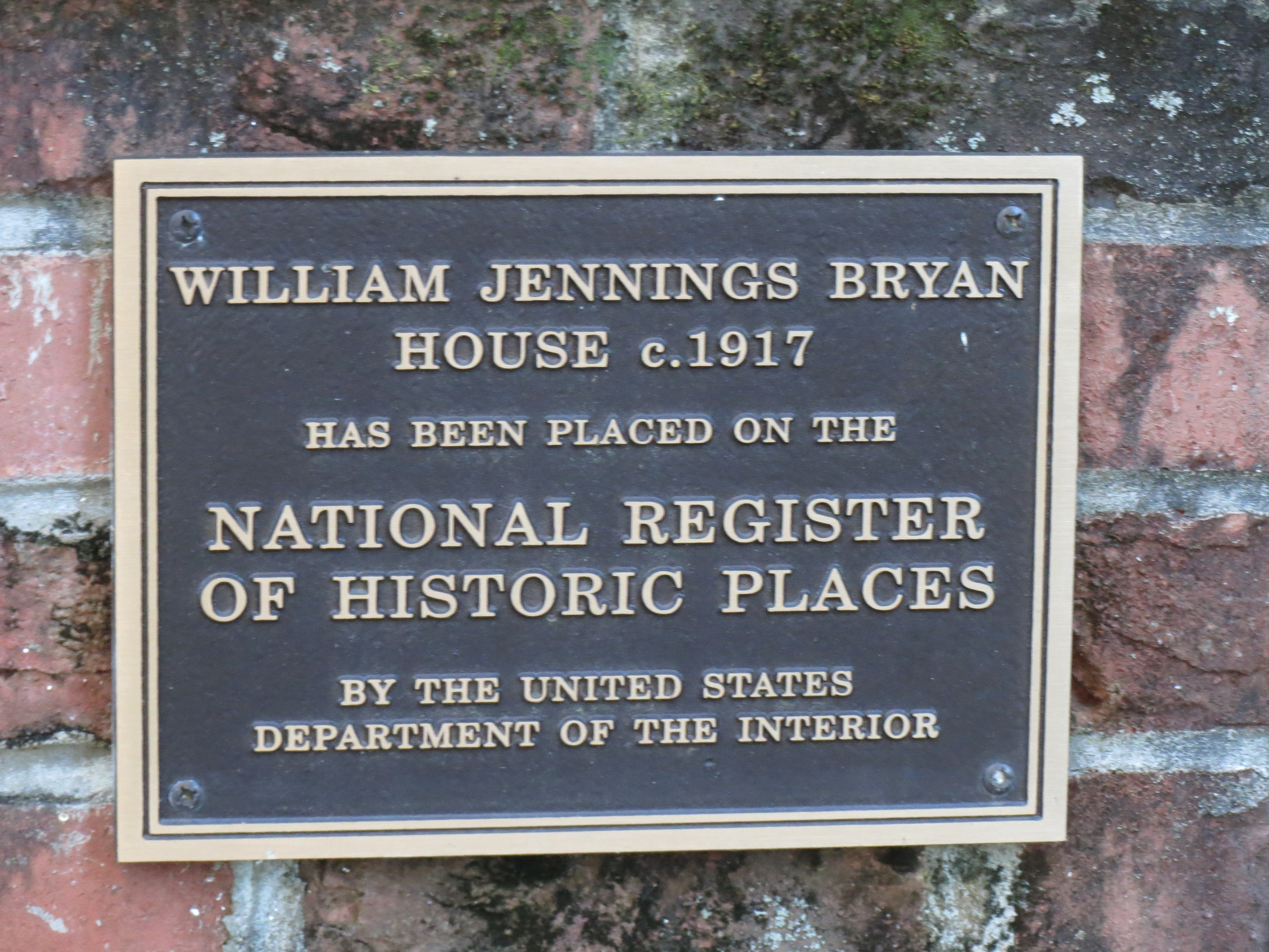 William Jennings Bryan House